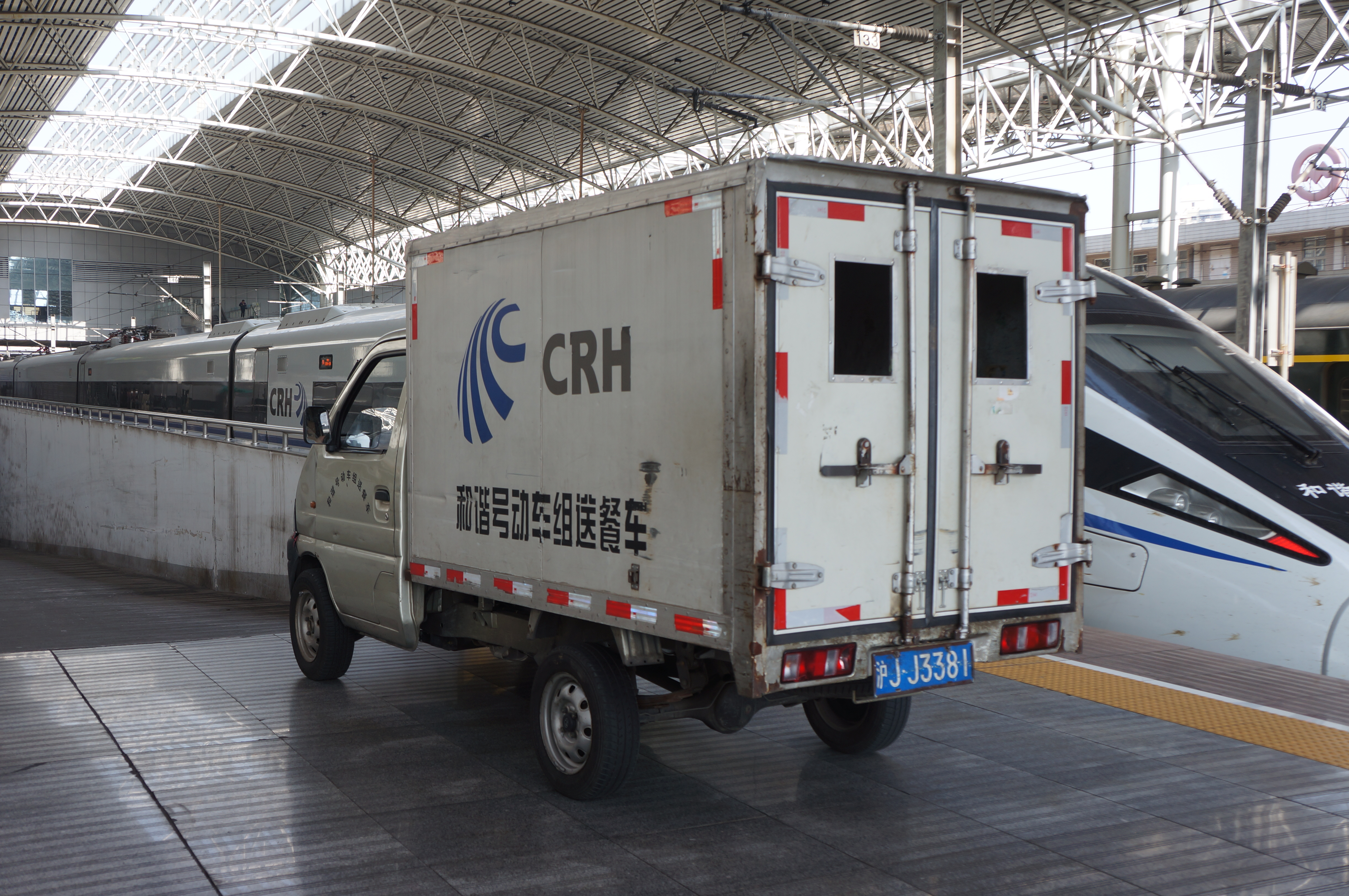 201704 Package delivering truck on the platform of Shanghai Station